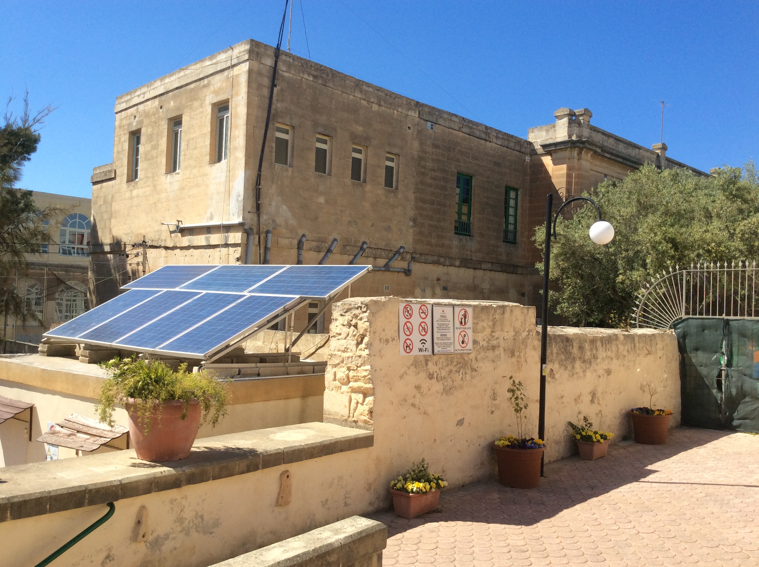 April 2017 in Gharghur